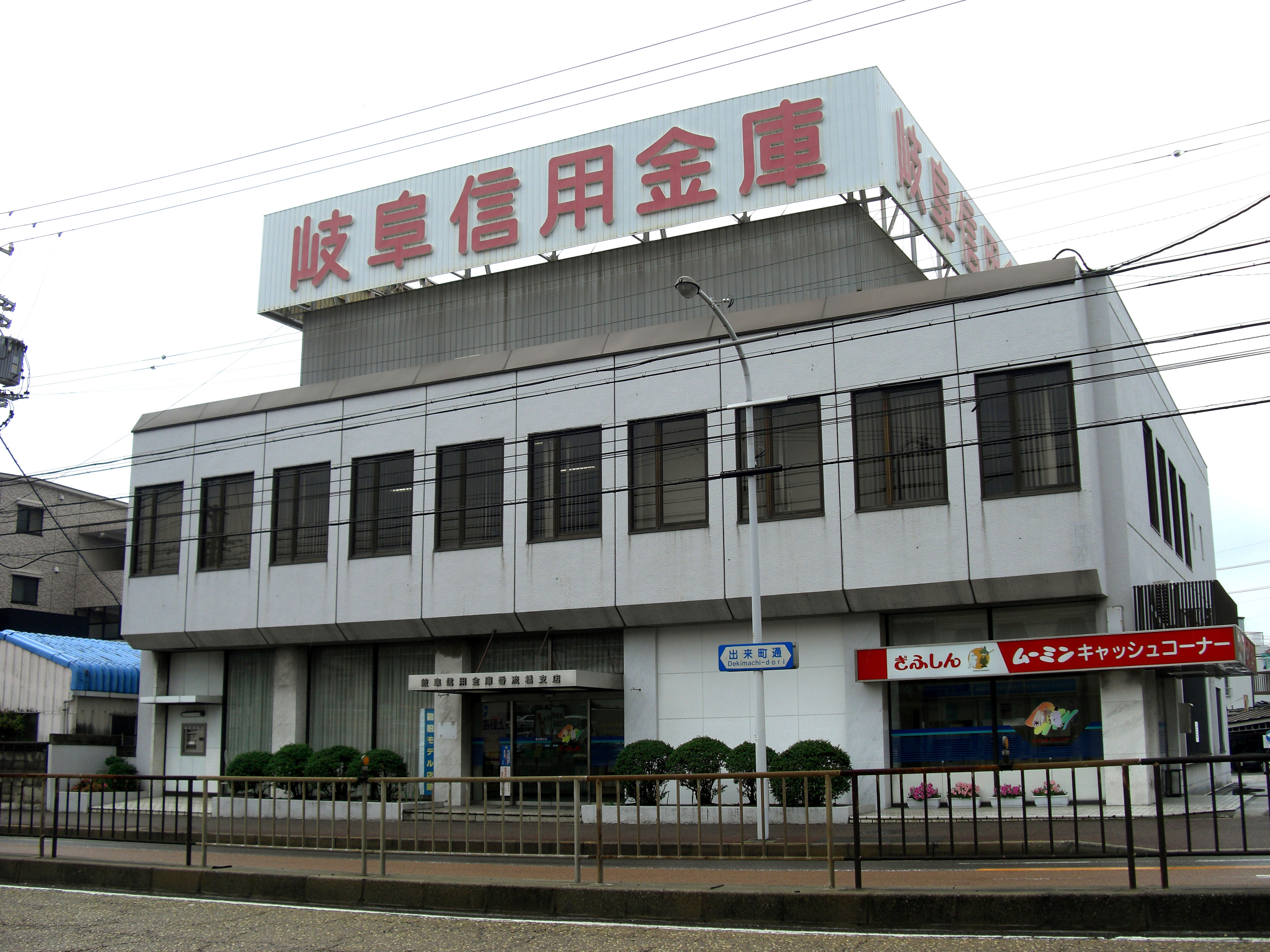 The Gifu Shinkin Bank Kanarebashi Branch,Takekoshi Chikusa-ku Nagoya-City Aichi Japan.